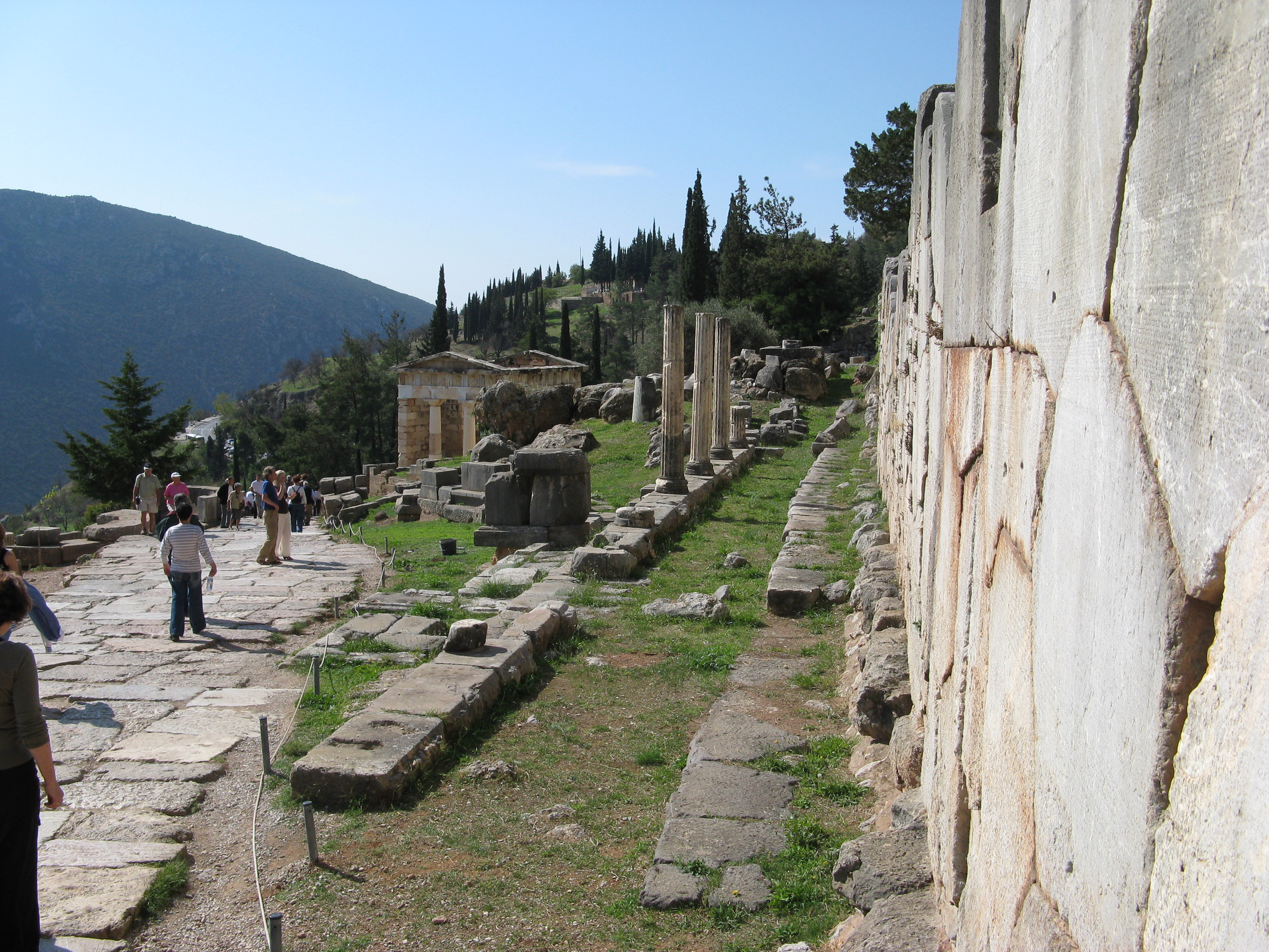 Stoa of the Athenians and the Polygonal wall forming the north wall of the stoa above Treasury house of Athens.